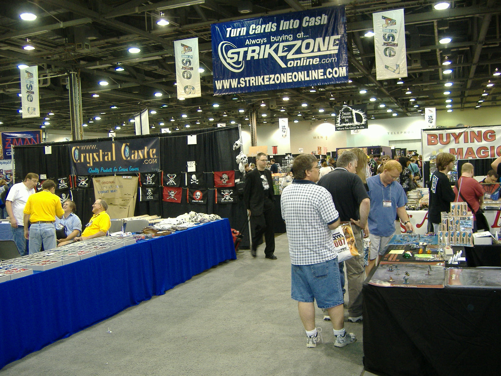 The exhibit hall of Origins Game Fair 2007 in Columbus, Ohio.